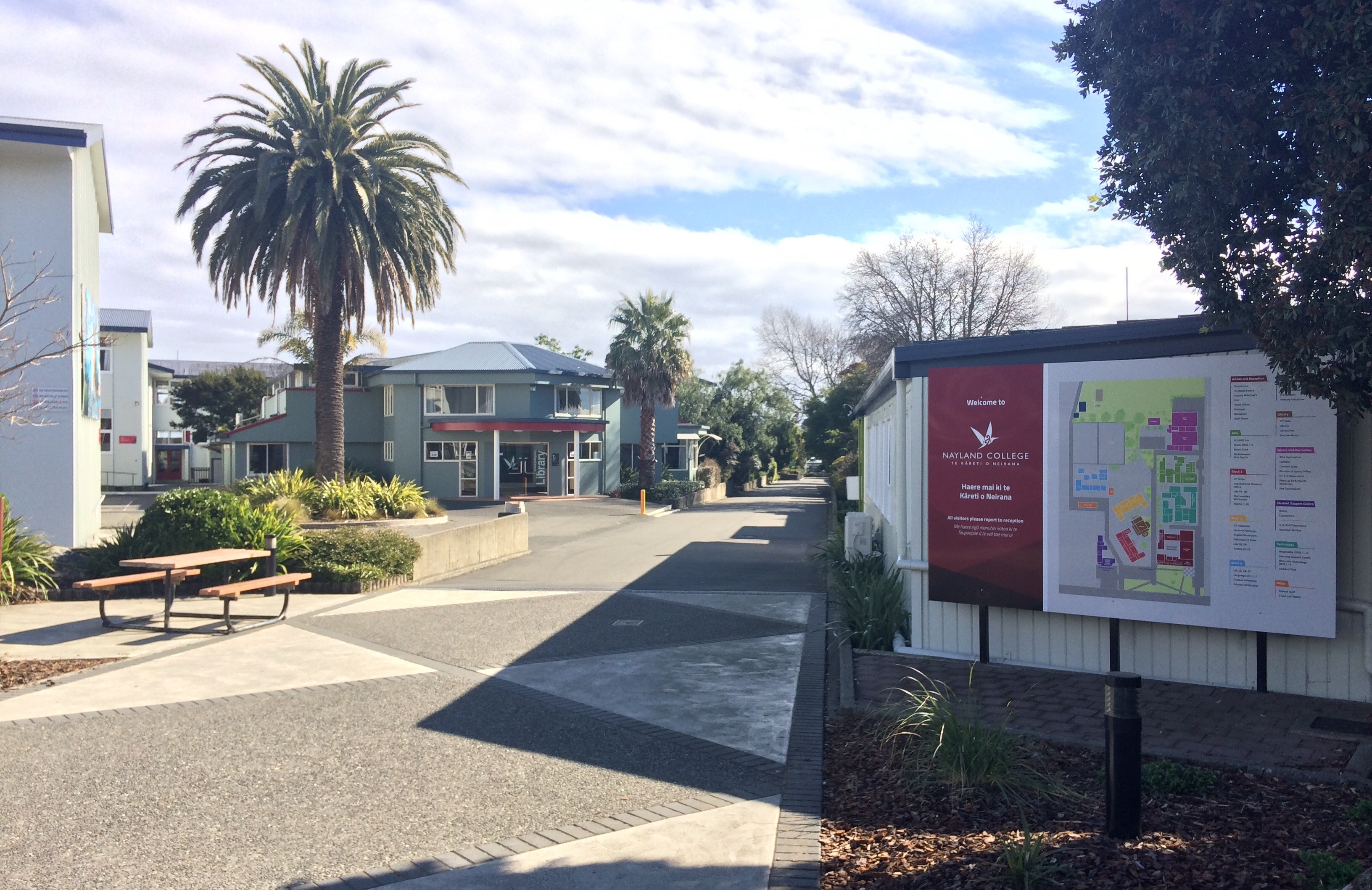 Looking down the Central Driveway with the Library and Block 1 in view.